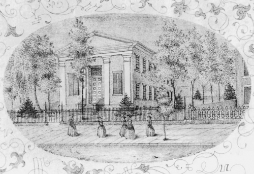 Only remaining image of the Hartford Female Seminary, from an 1896 diploma